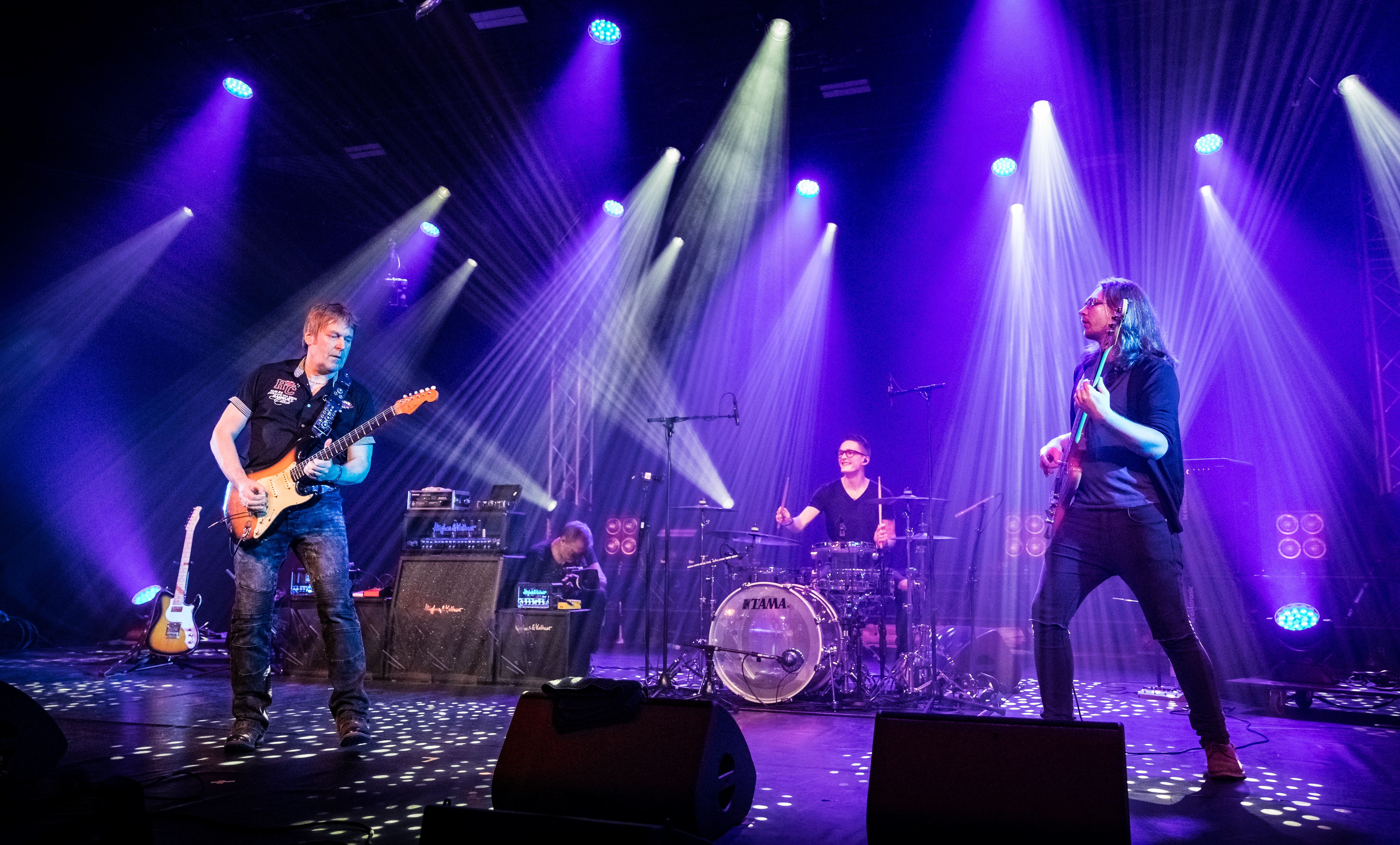 Eamonn McCormac - Leverkusener Jazztage 2019